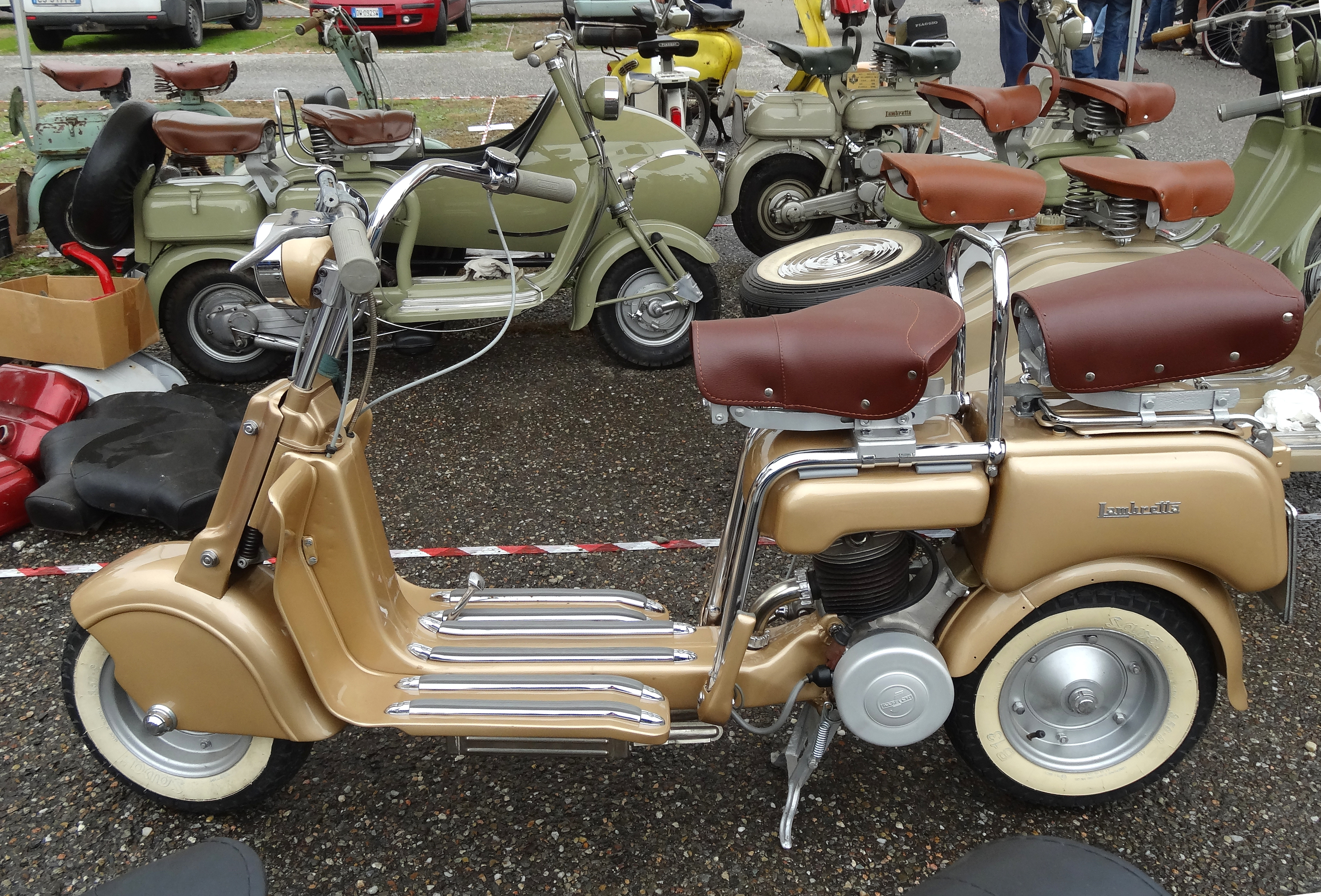 Innocenti Lambretta B scooter